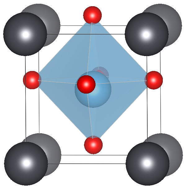 Tetragonal unit cell of lead titanate